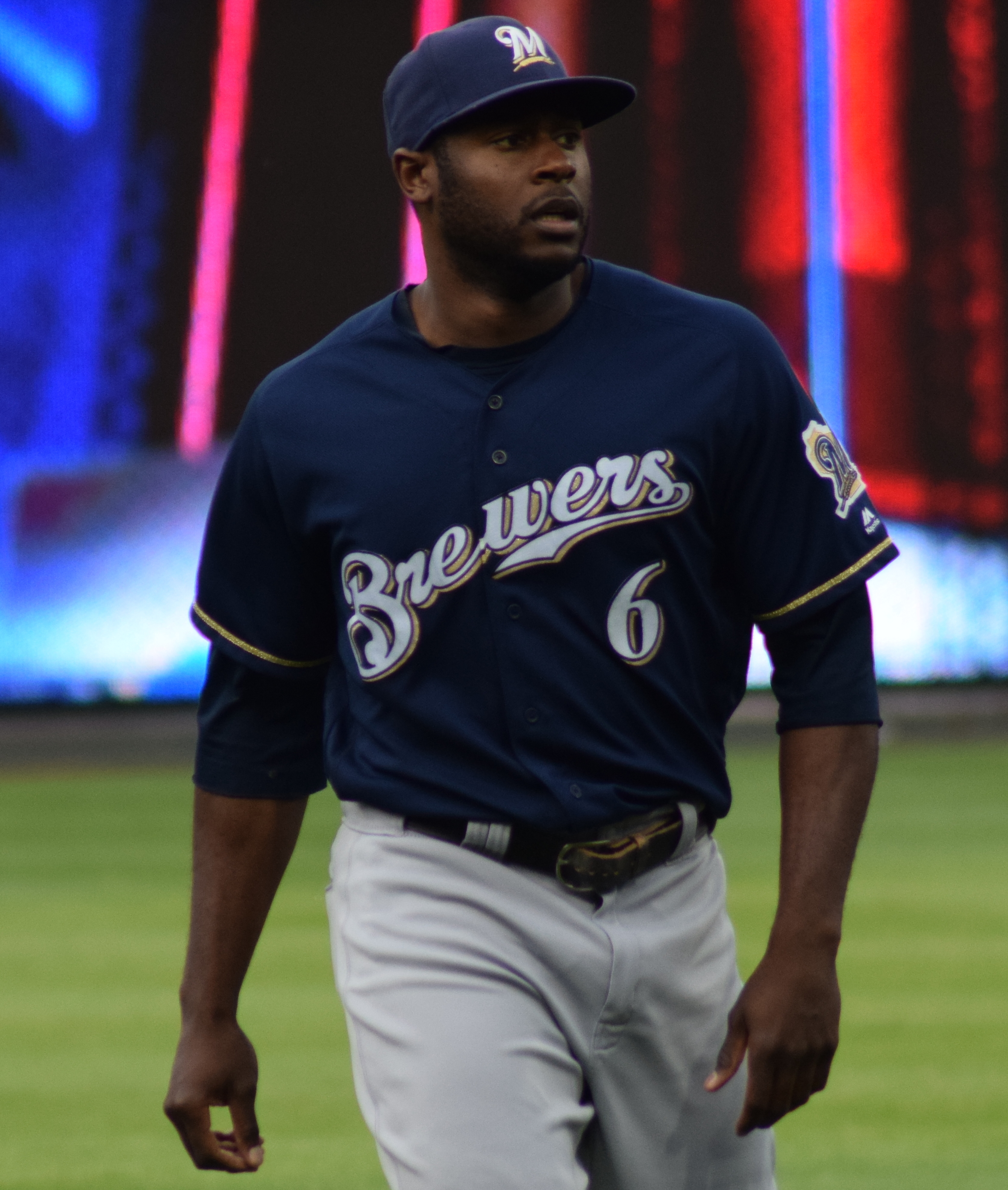 Lorenzo Cain with the Milwaukee Brewers at Citizens Bank Park in Philadelphia in 2018